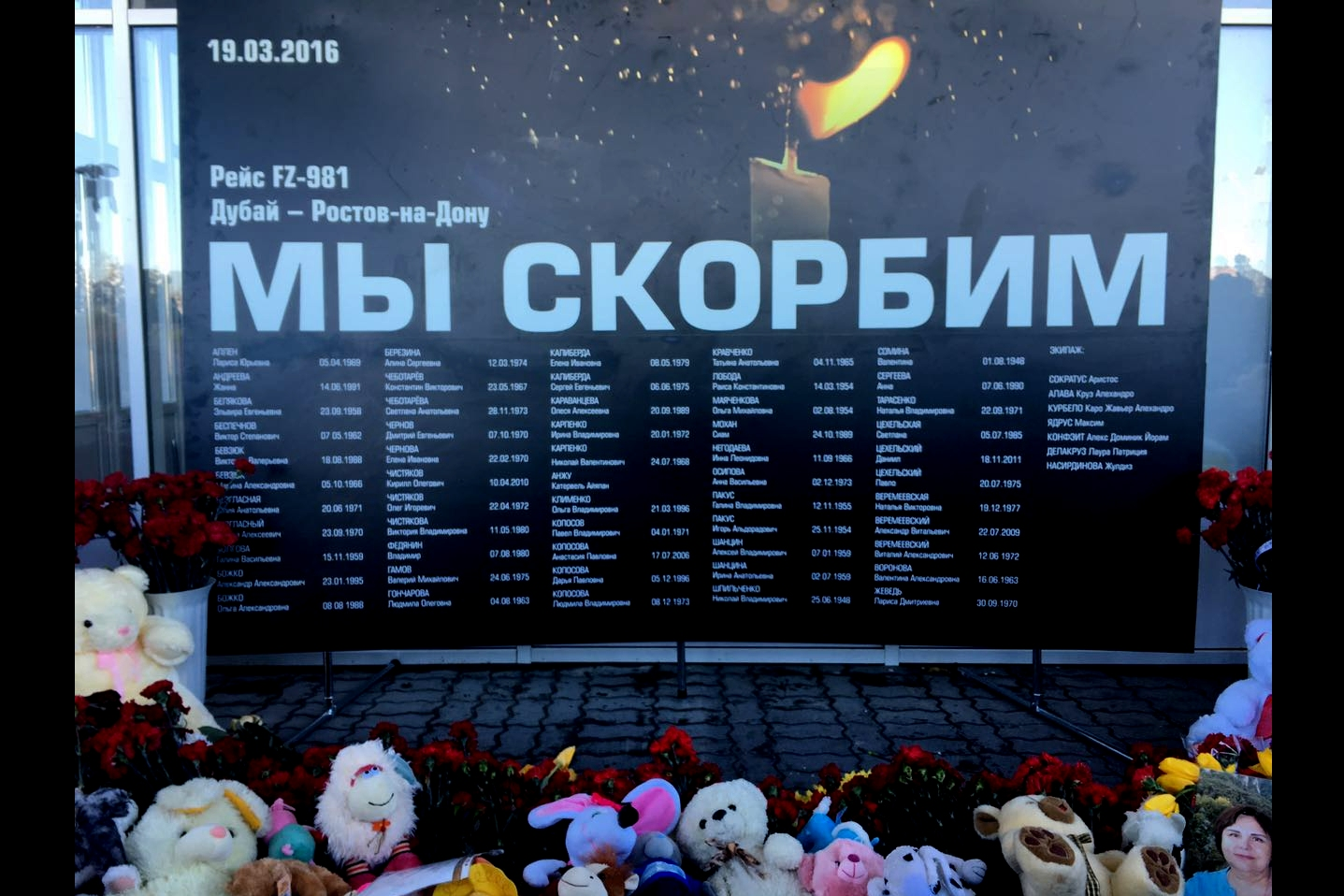 Makeshift memorial at the airport for victims of Flydubai Flight 981 (Rostov-on-Don, Russia)